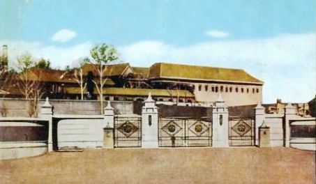 Imperial palace of Manchukuo, from Post card of Manchukuo.